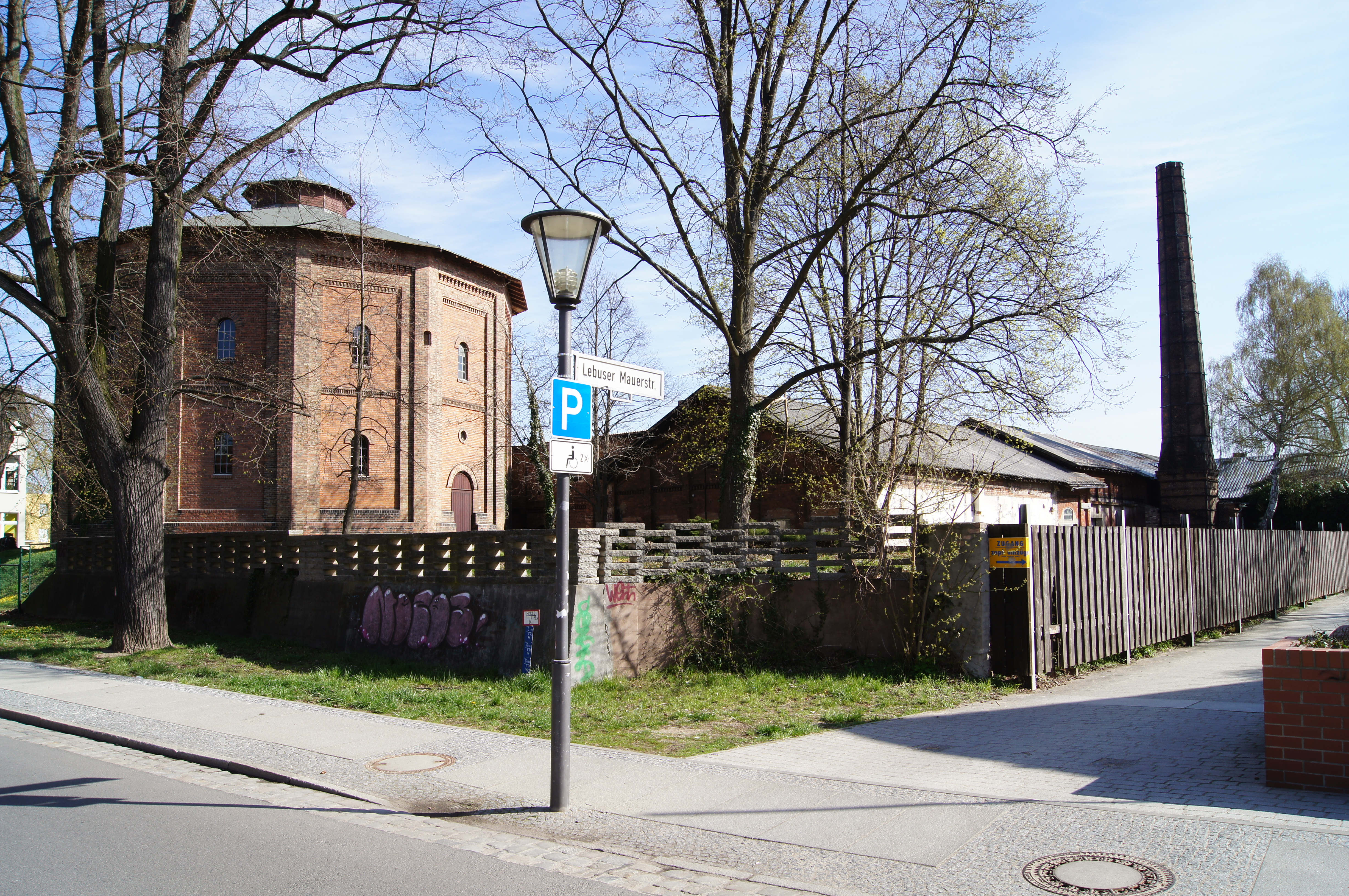 Old Gasworks Frankfurt (Oder), Brandenburg, Germany